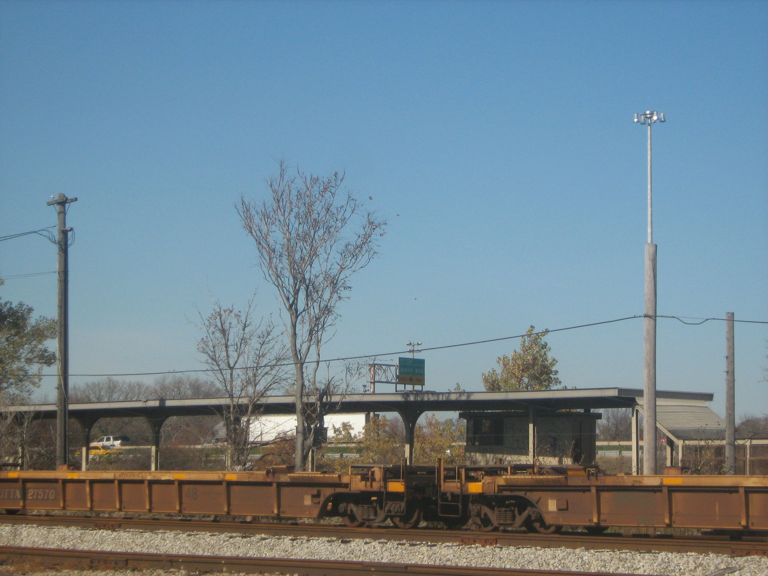 Central Avenue and Eisenhower Expressway (5600 W/720 S) 720 S Central Ave Chicago, IL 60644 Blue Line (Congress Branch)